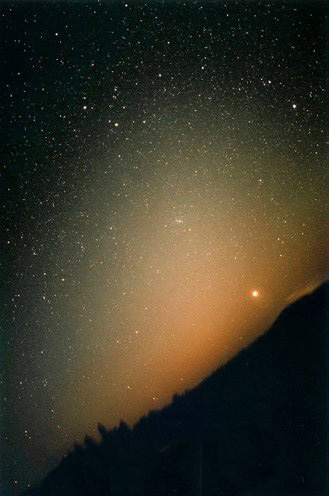 This photo was taken facing east before the beginning of twilight on a morning in August 2000. The zodiacal light is passing through the constellation of Cancer (Venus was in Cancer at this time).